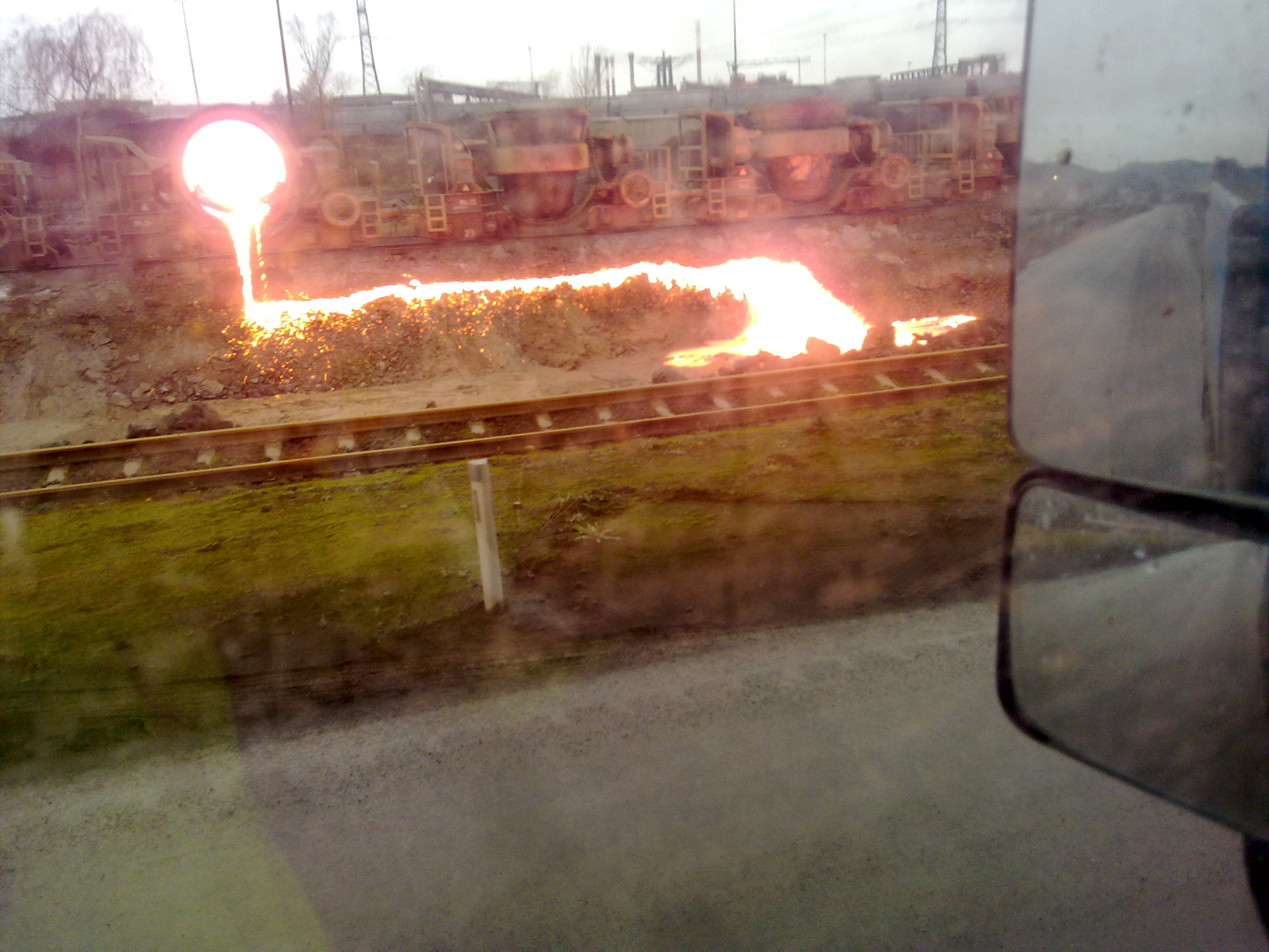 Torpedo car, bottle car pouring slag near the VOEST in Linz, Austria.